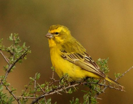 An adult male Yellow Canary in Great Karoo, Northern Cape, South Africa.